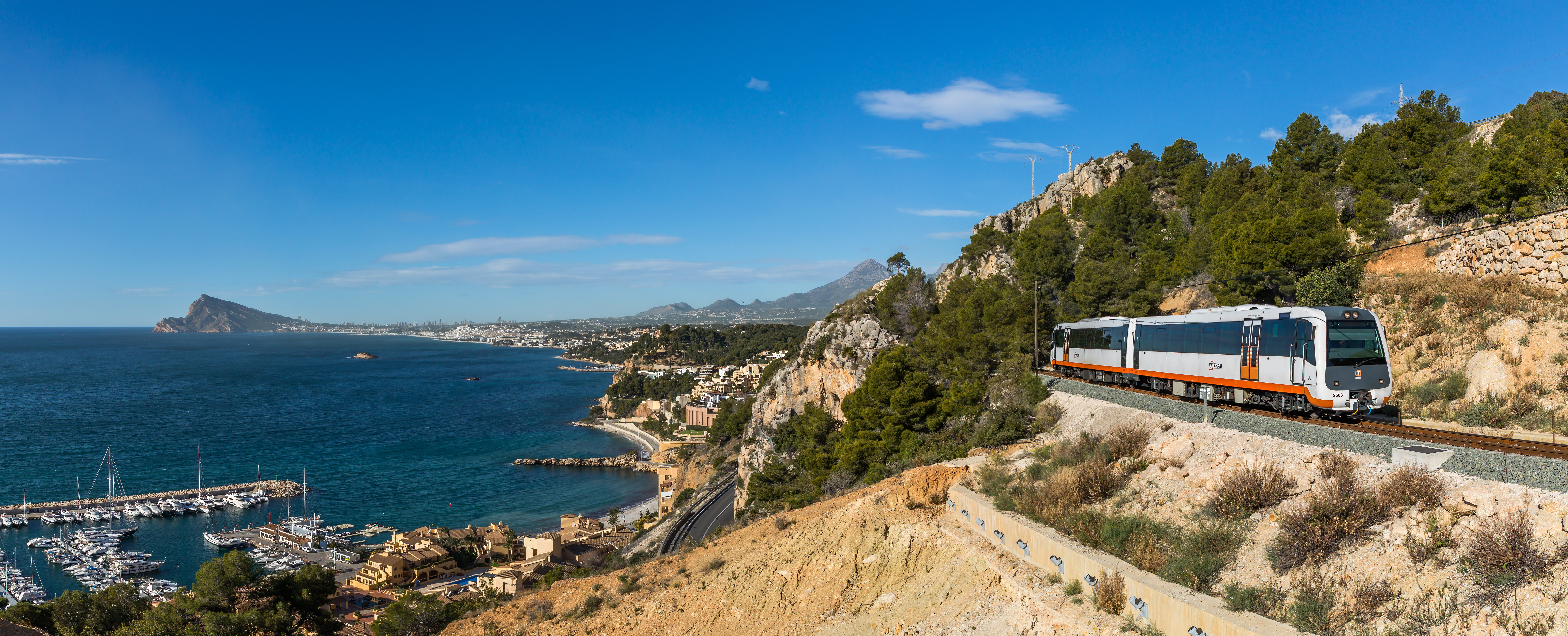 A rebuilt class 2500 MAN DMU of the Ferrocarriles de la Generalidad Valenciana (Tram Alicante) has just left Olla Altea and is now headed for Calp, Spain.